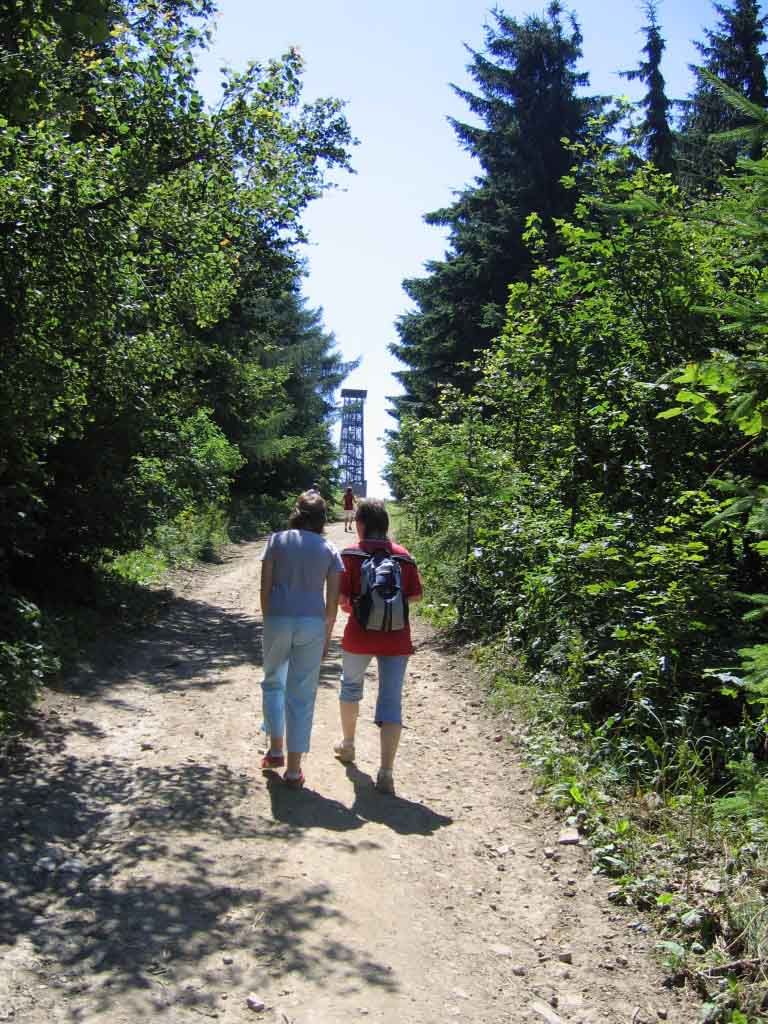 Lopeník, Uherské Hradiště District, Czechia.